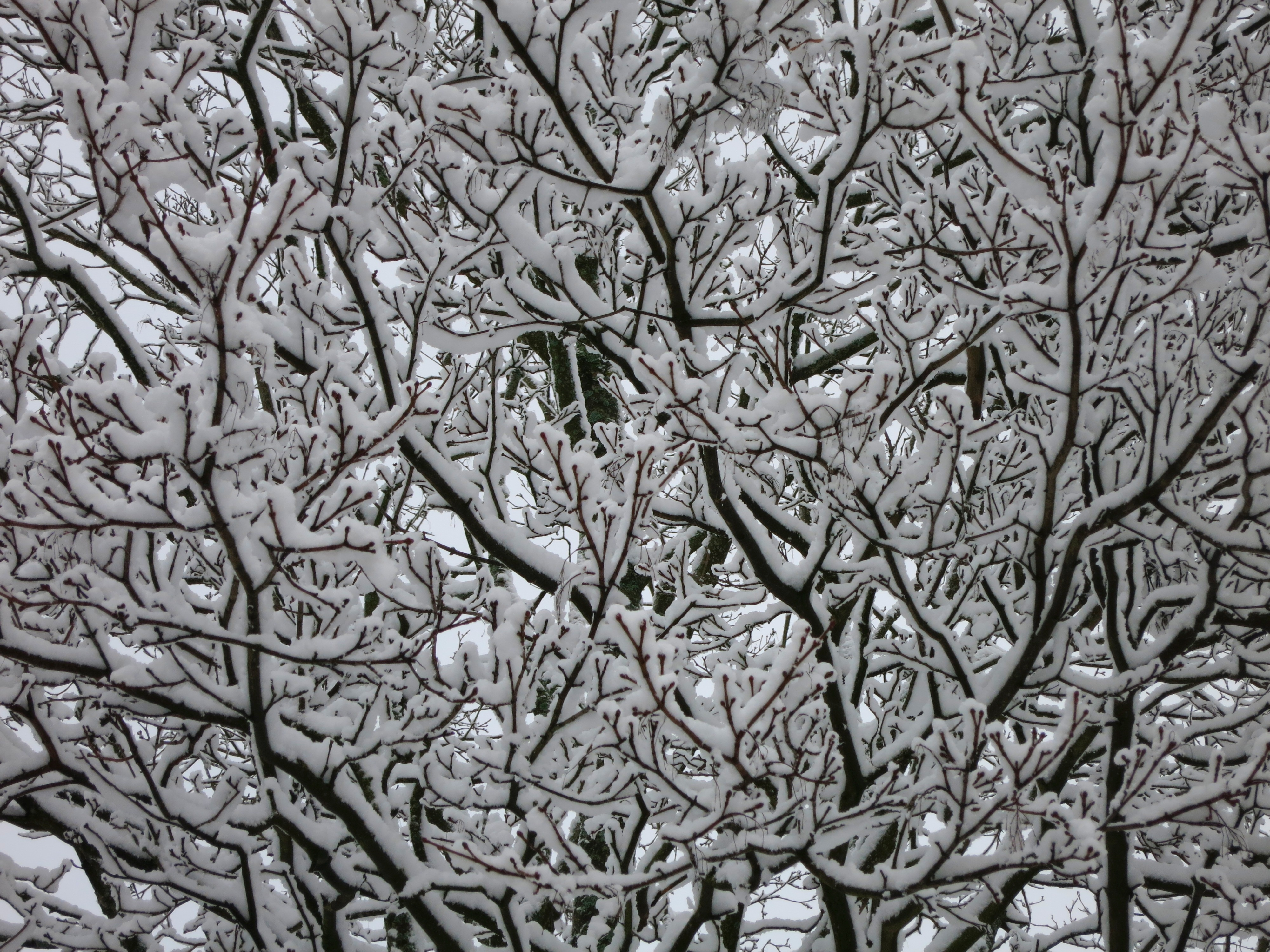 Acer platanoides crown in winter (Hyvinkää, Finland)